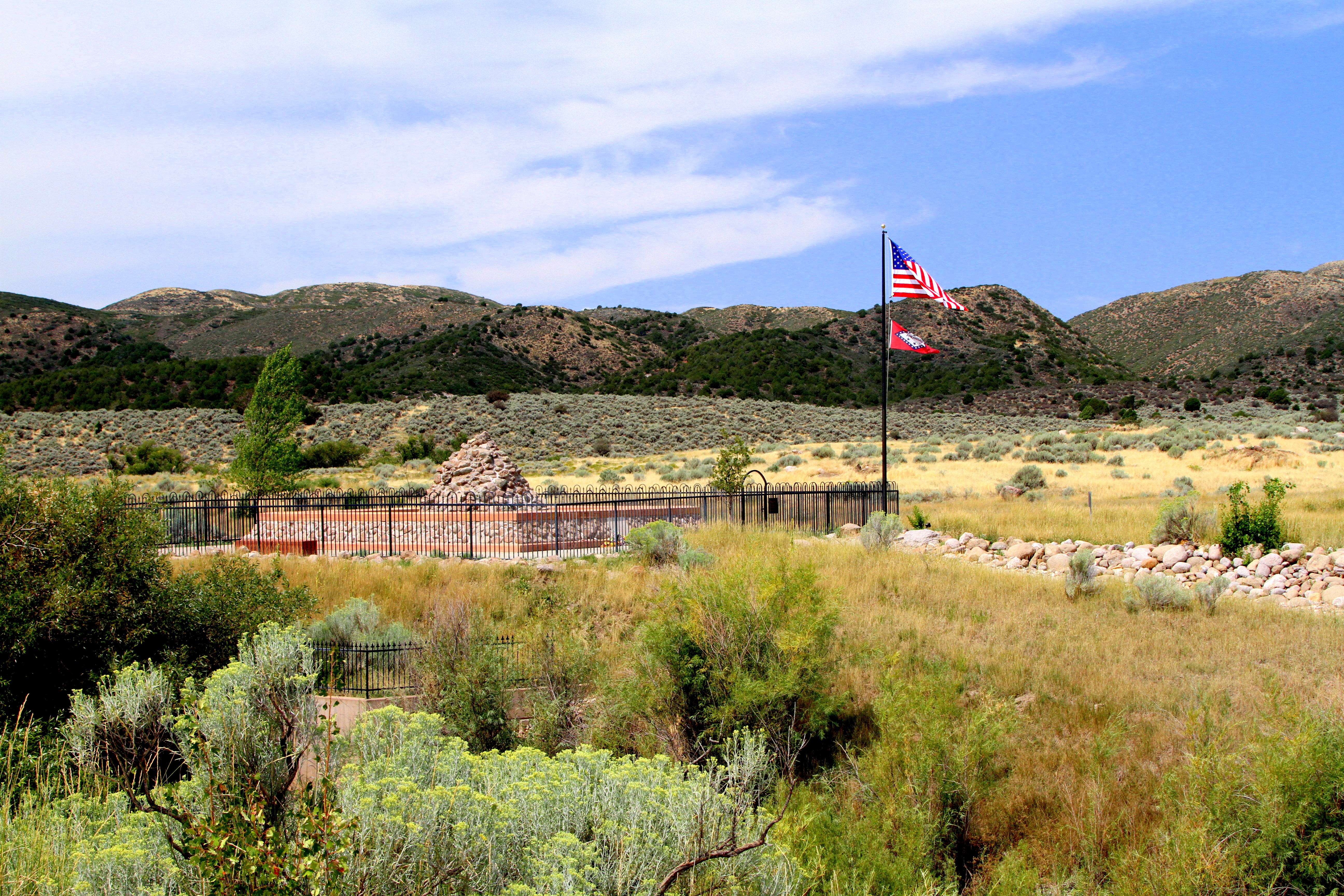 Mountain Meadows Massacre Site Mass Grave Monument near St. George, Utah